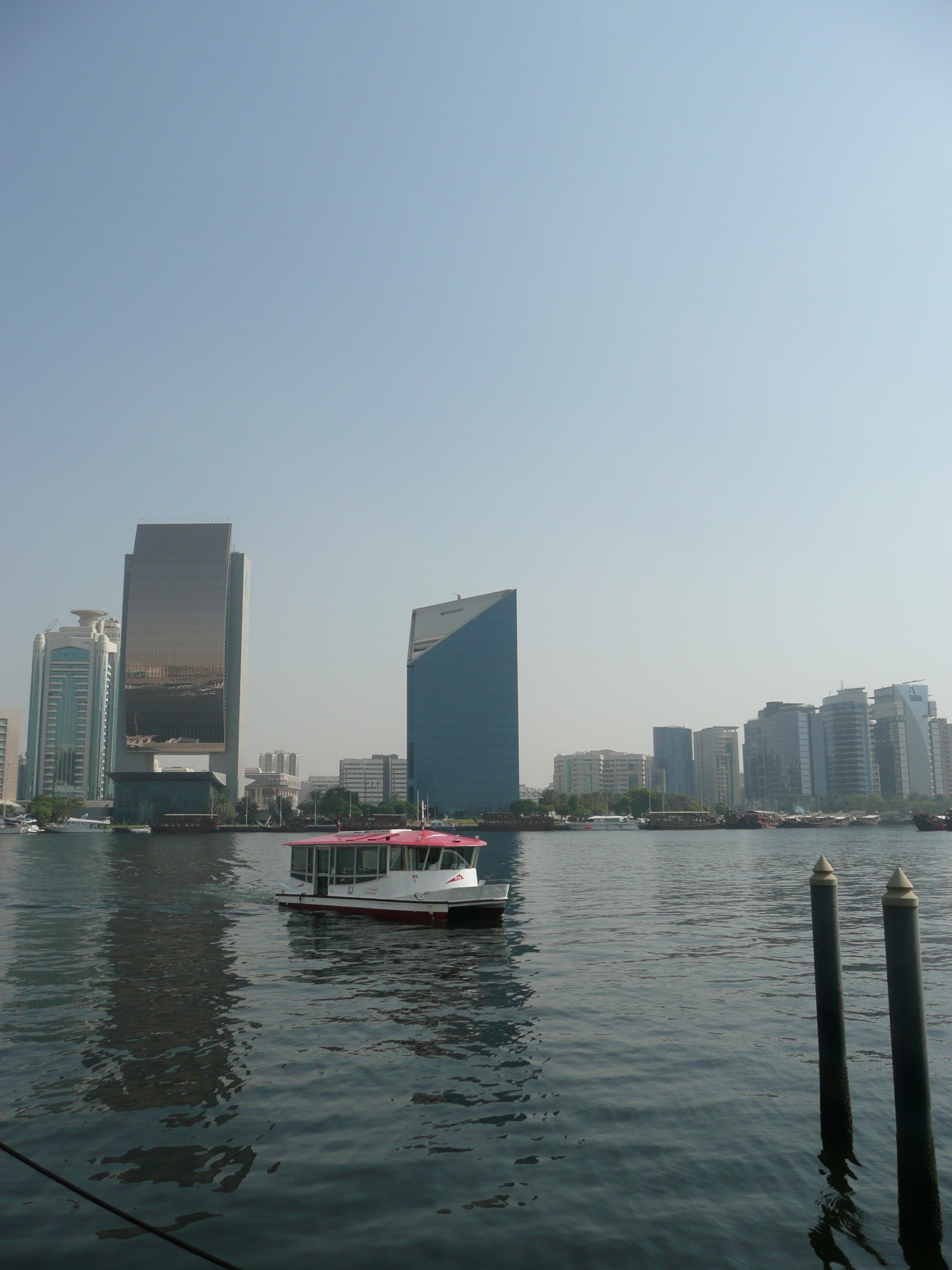 Water bus in the Dubai Creek within Dubai, United Arab Emirates.